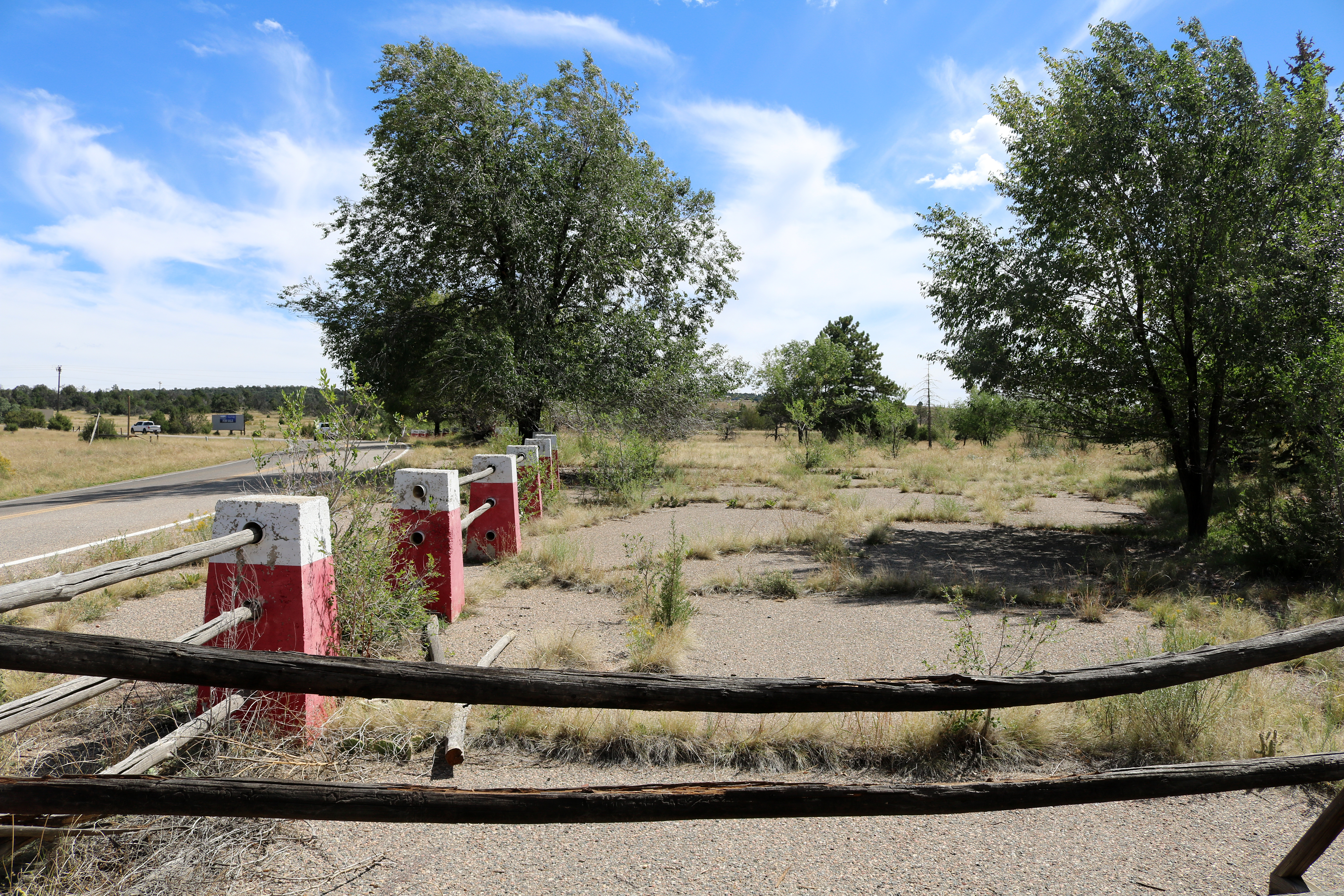 The unincorporated community of Buckskin Joe in Fremont County, Colorado. The road on the left is Fremont County Road 3A. The area on the right is the now-abandoned western-style theme park that was also called Buckskin Joe. Most of the theme park's buildings have been removed from the property.